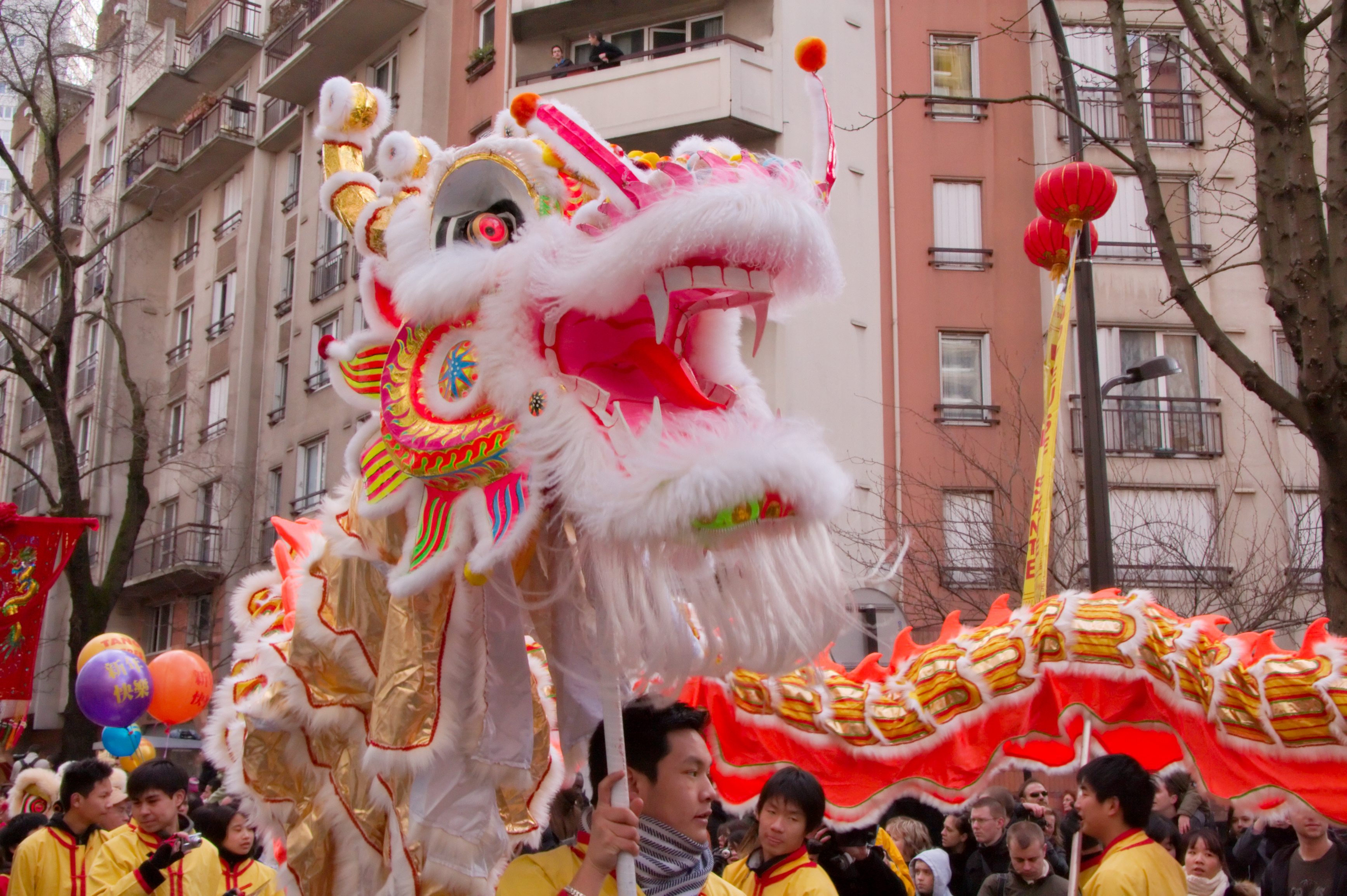 Chinese New Year, which took place in the 13th arrondissement of Paris (France).